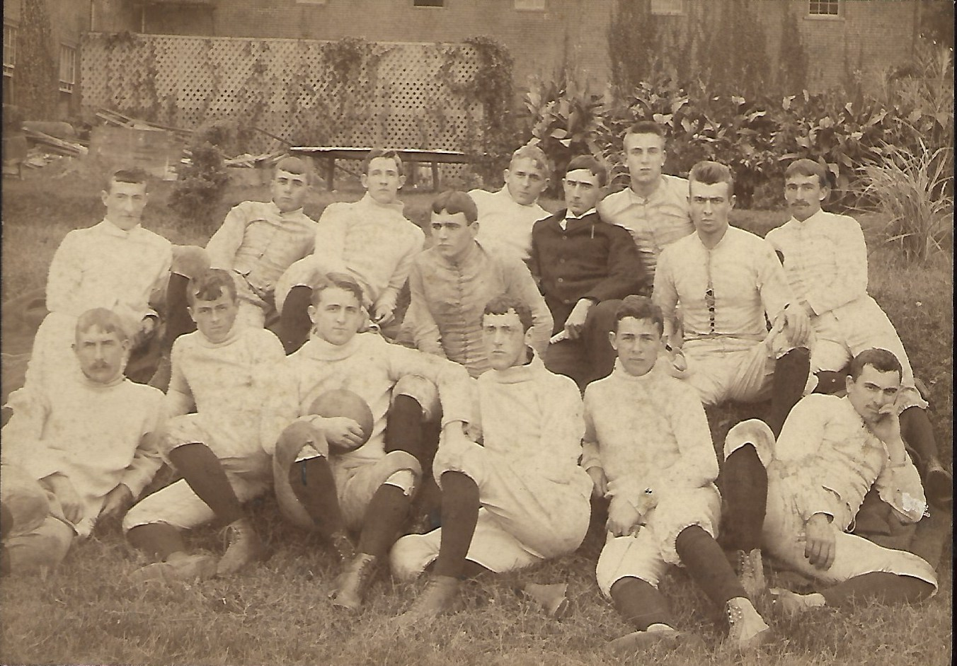 The 1891 Delaware College football team, JB Handy, Captain.